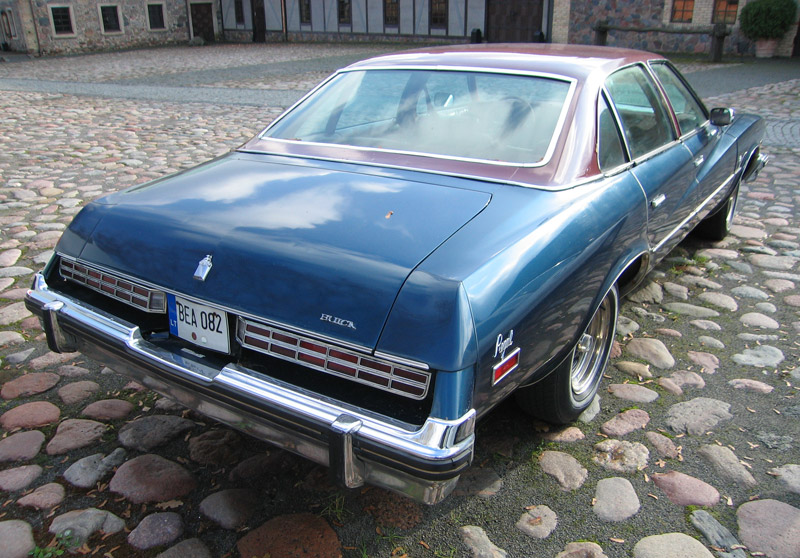 Buick Regal (A-body)